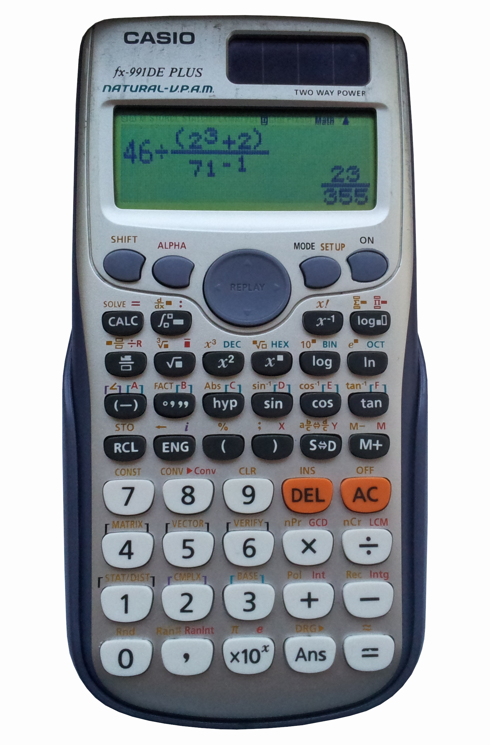 Casio fx-991DE Plus in use